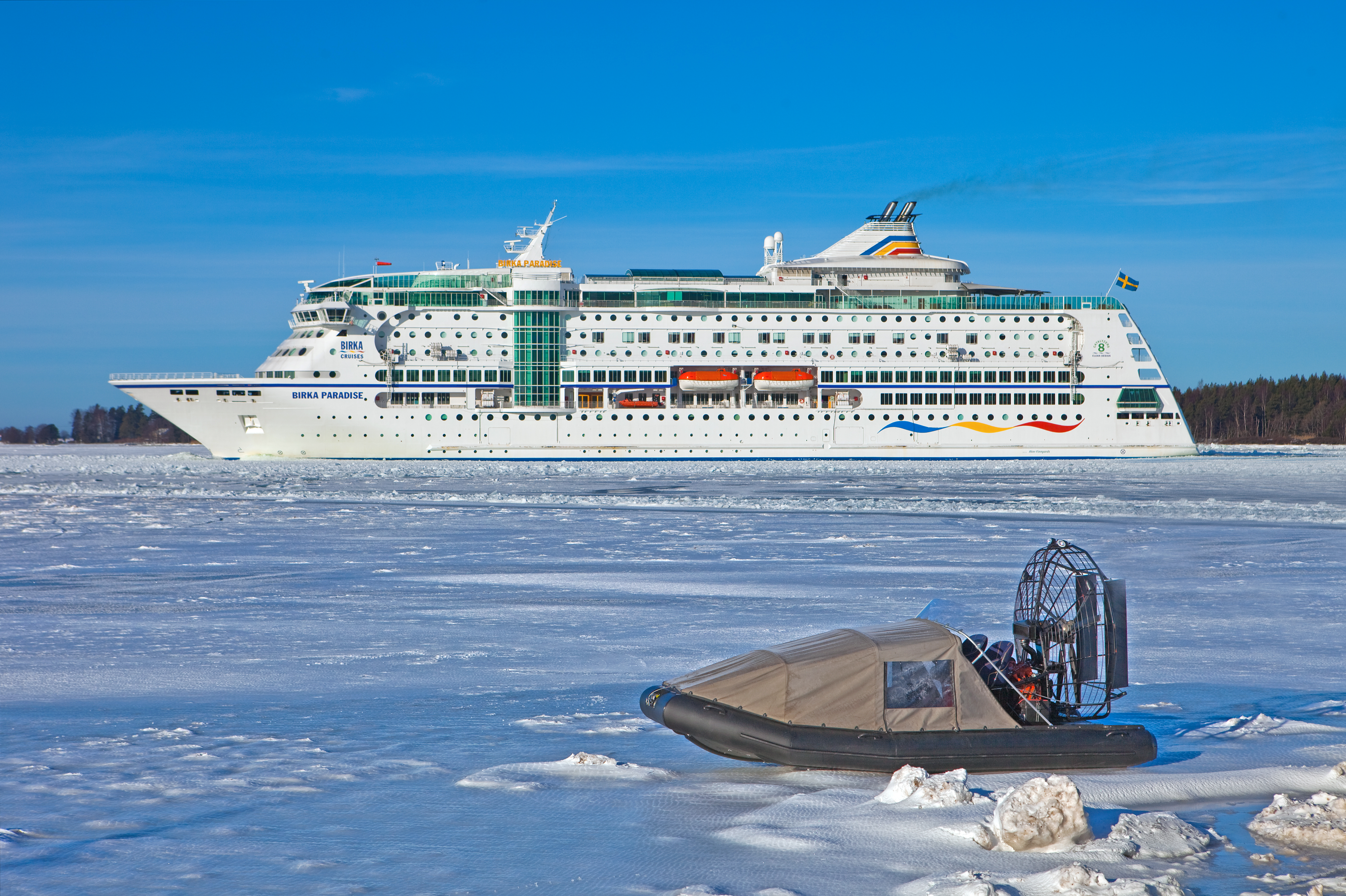 Baltic Sea